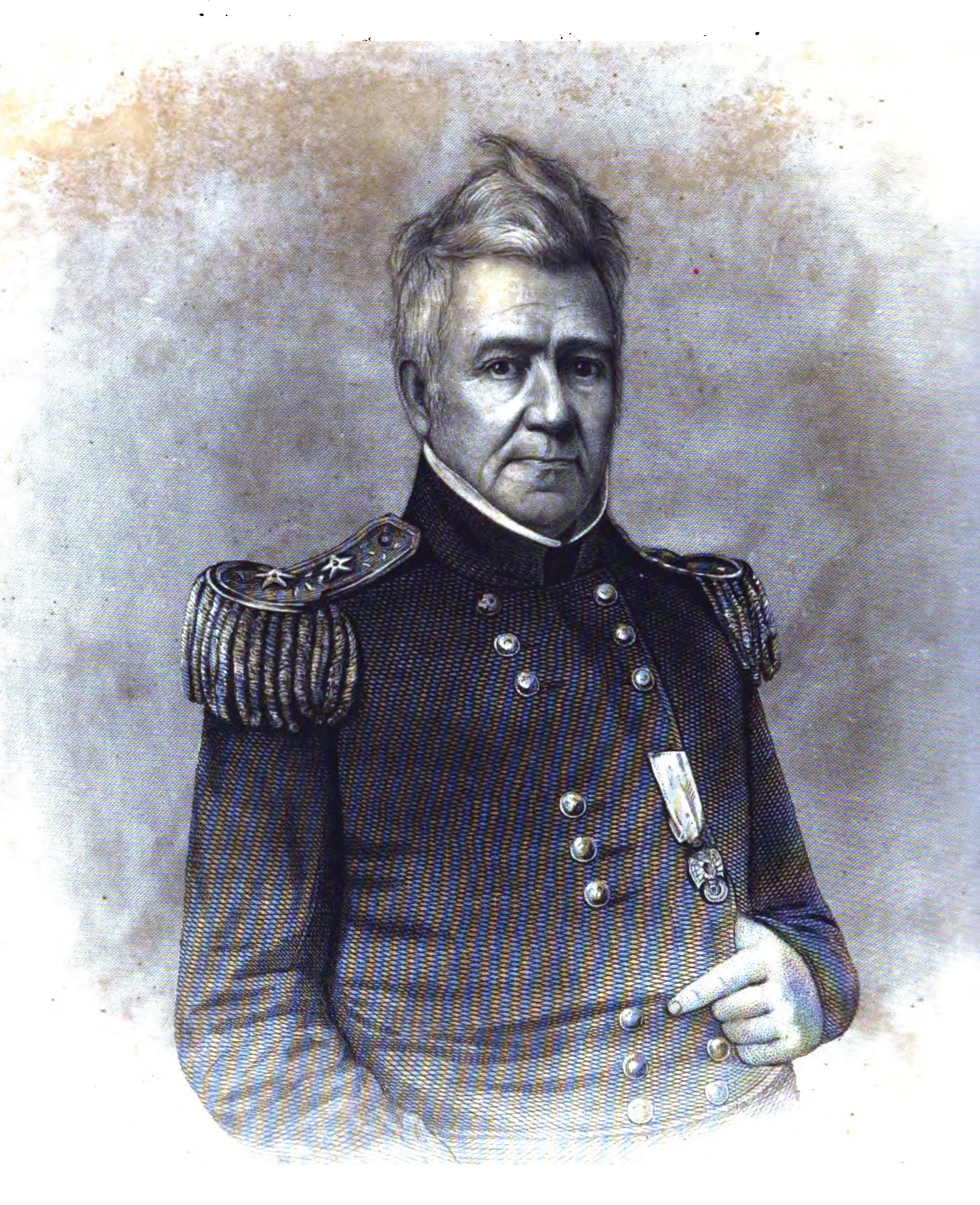 Nathaniel Towson (January 22, 1784 – July 20, 1854), also known as Nathan Towson, was a Major General in the United States Army.